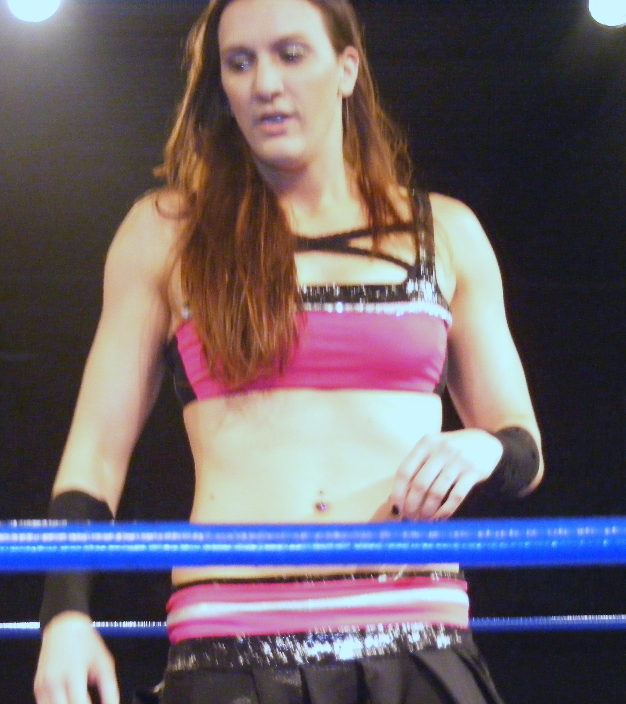 Madison Eagles prior to wrestling Manami Toyota at CHIKARA King of Trios Night 3 on 4/17/11